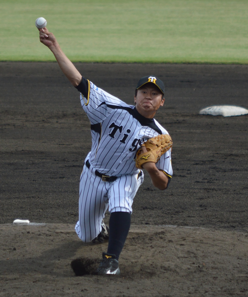 Keisuke Hayashi, pitcher of the Hanshin Tigers, at Hanshin Naruohama Baseball Ground.